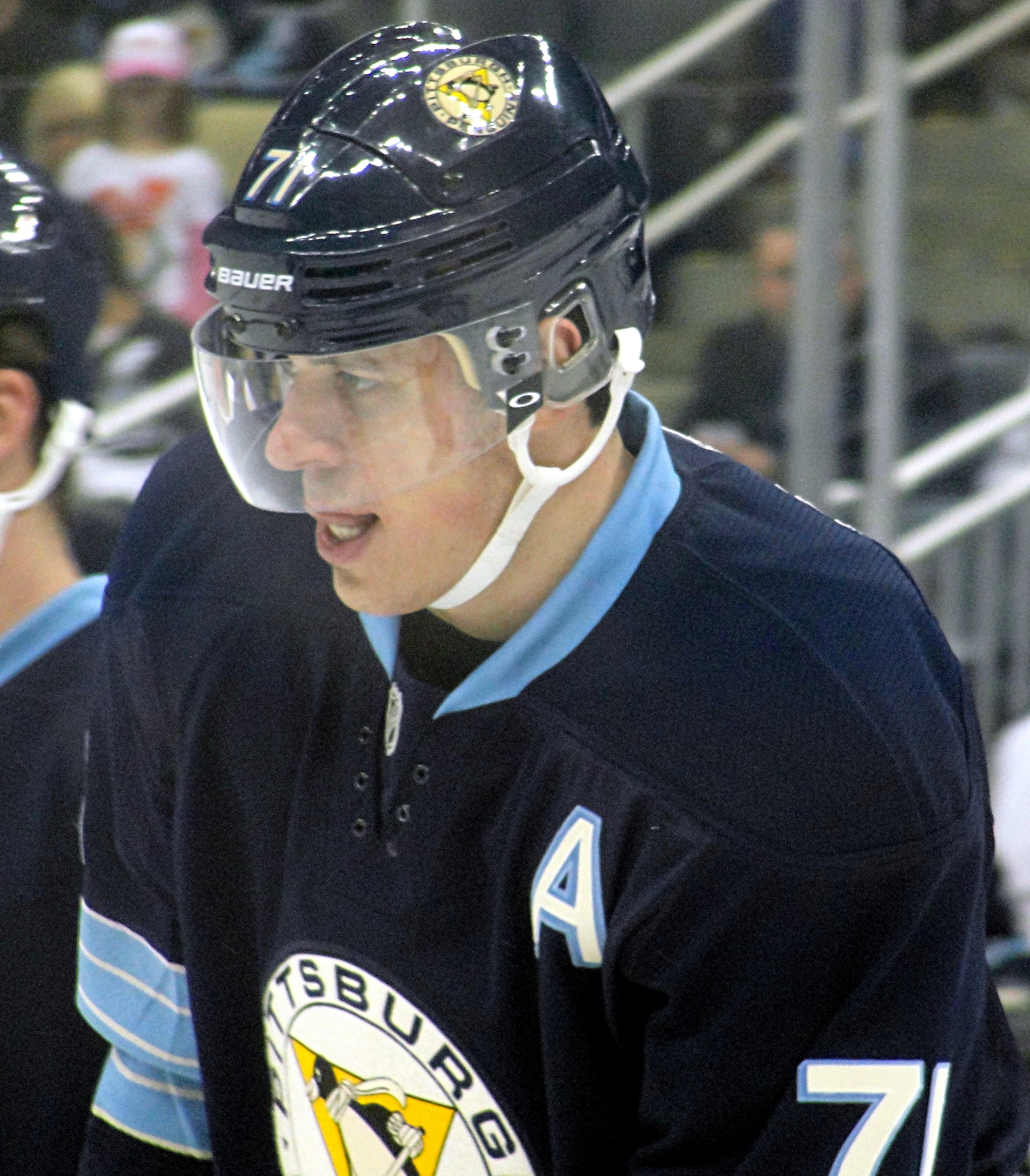 Pittsburgh Penguins center Evgeni Malkin skates against the Ottawa Senators in a November 25, 2011 game at Consol Energy Center in Pittsburgh, PA.